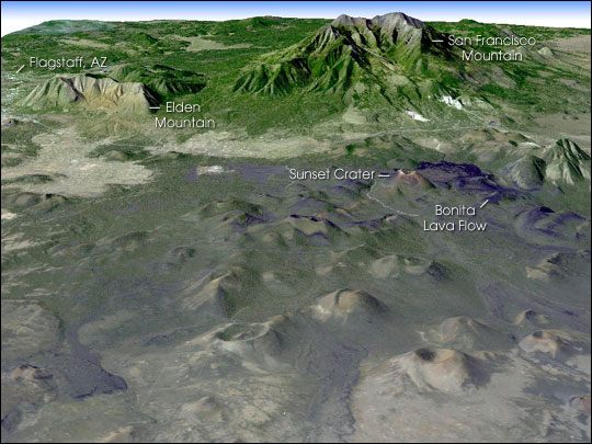 Composite satellite image of the San Francisco Peaks, Arizona, USA. ASTER image data were draped over topographic data from the U.S. Geological Survey. The picture is oriented as if you were looking generally westward. The image is centered near 35.3 degrees north latitude and 111.5 degrees west longitude.